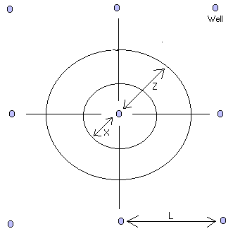 A well field for subsurface drainage